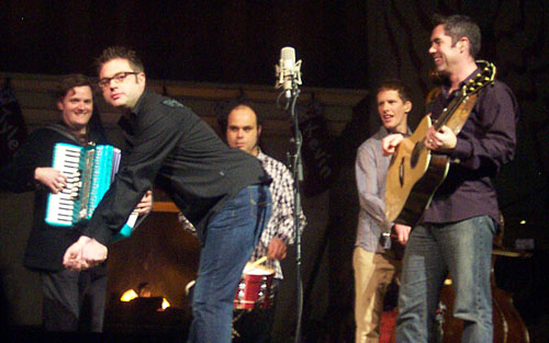 Canadian musical group Barenaked Ladies between songs while performing at Massey Hall in downtown Toronto, Ontario. Steven Page (front-left) mimes golf during an ad libbed song.